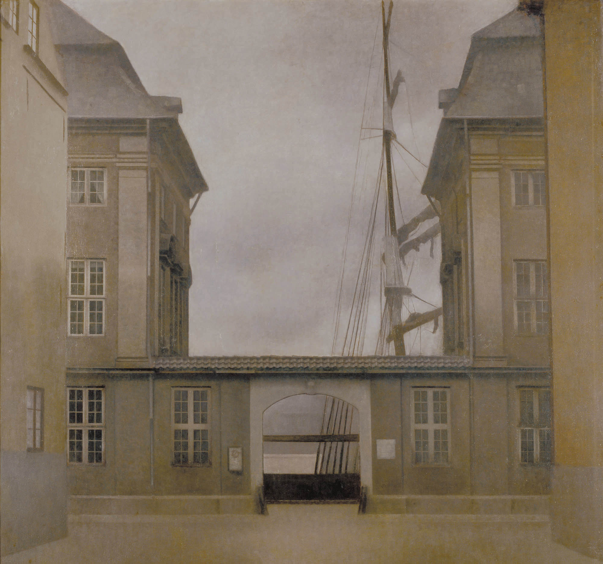 View of the Old Asiatic Company 1902 Alternative title(s): The Asiatic Company Buildings.